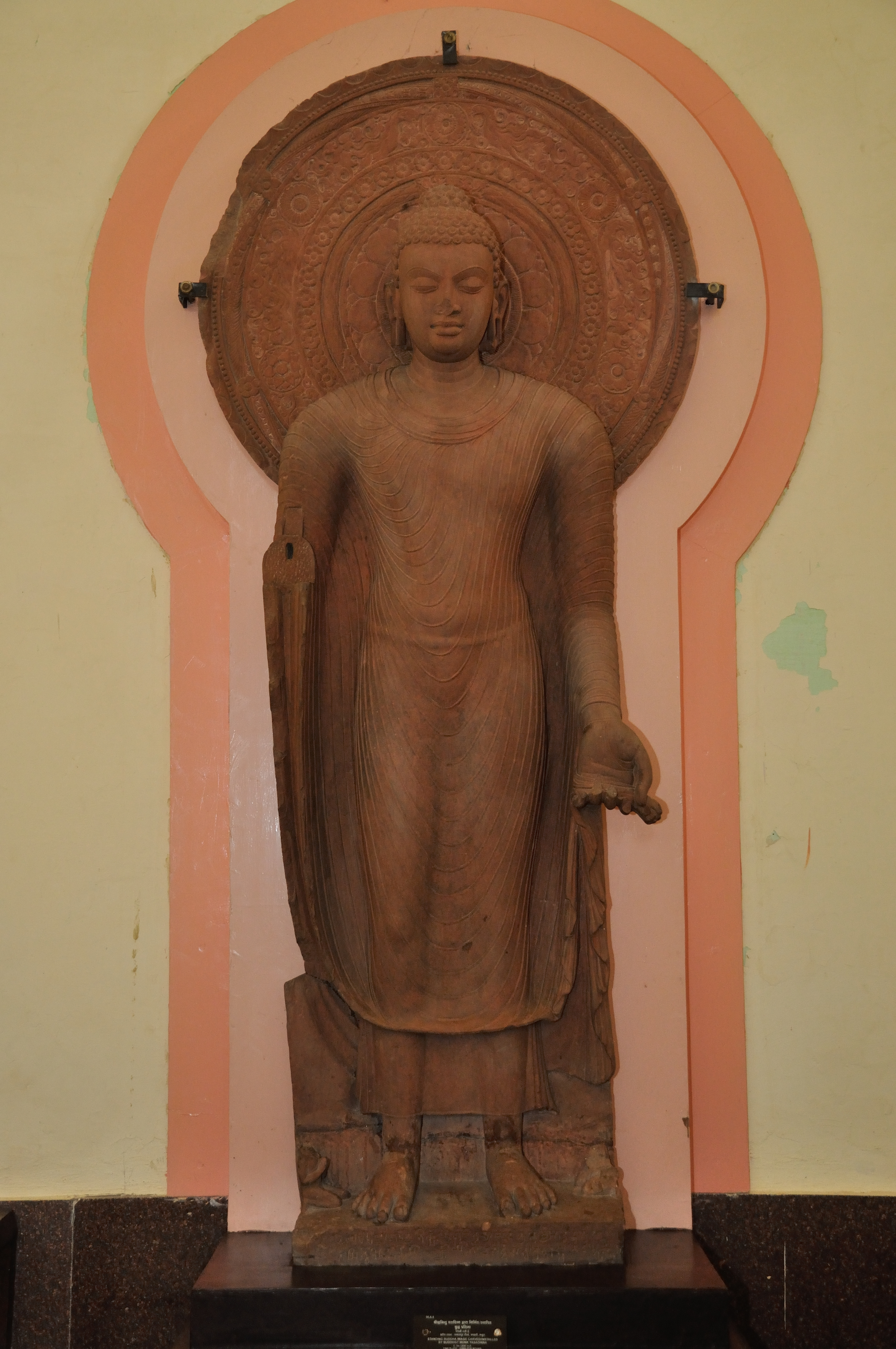 This artefact resides at the Government Museum, (hi: Rashtriya Sangrahalaya) formerly The Curzon Museum of Archaeology, Museum Road or Murari Lal Rajpal road, Dampier Nagar, Mathura, Uttar Pradesh, India. This museum is administrating by the State Government of Uttar Pradesh of India.